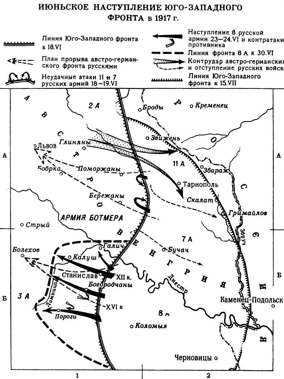 Map of Kerensky offensive (July 1917, Eastern front of WWI)